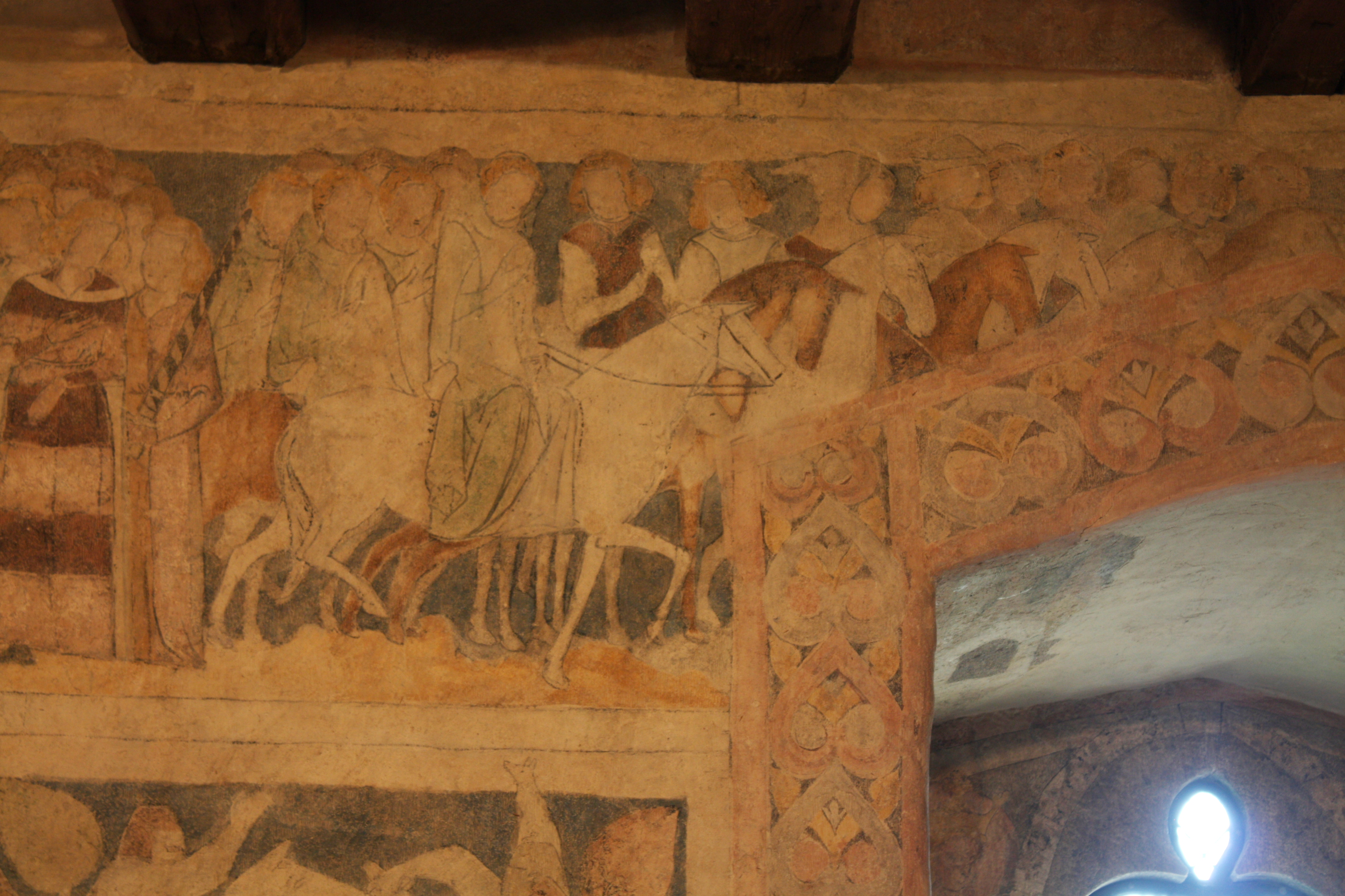 This photo of Lower Silesian Voivodeship was taken during Wikiexpedition 2013 set up by Wikimedia Polska Association.You can see all photographs in category Wikiekspedycja 2013.